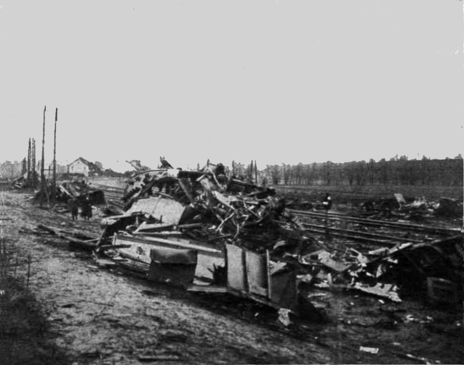 Broken railcars at the Herceghalom railway accident's site